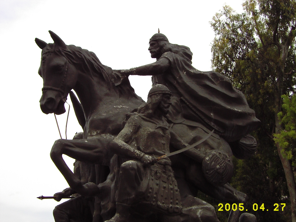 تمثال صلاح الدين الأيوبي - دمشق